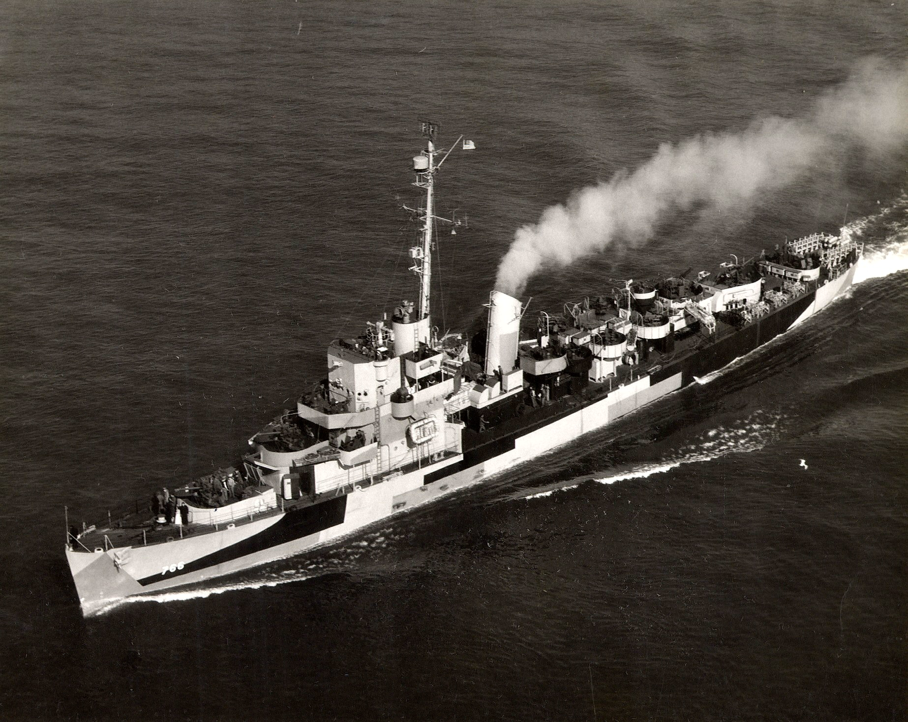 The WWII Destroyer Escort steaming forward in 1944.